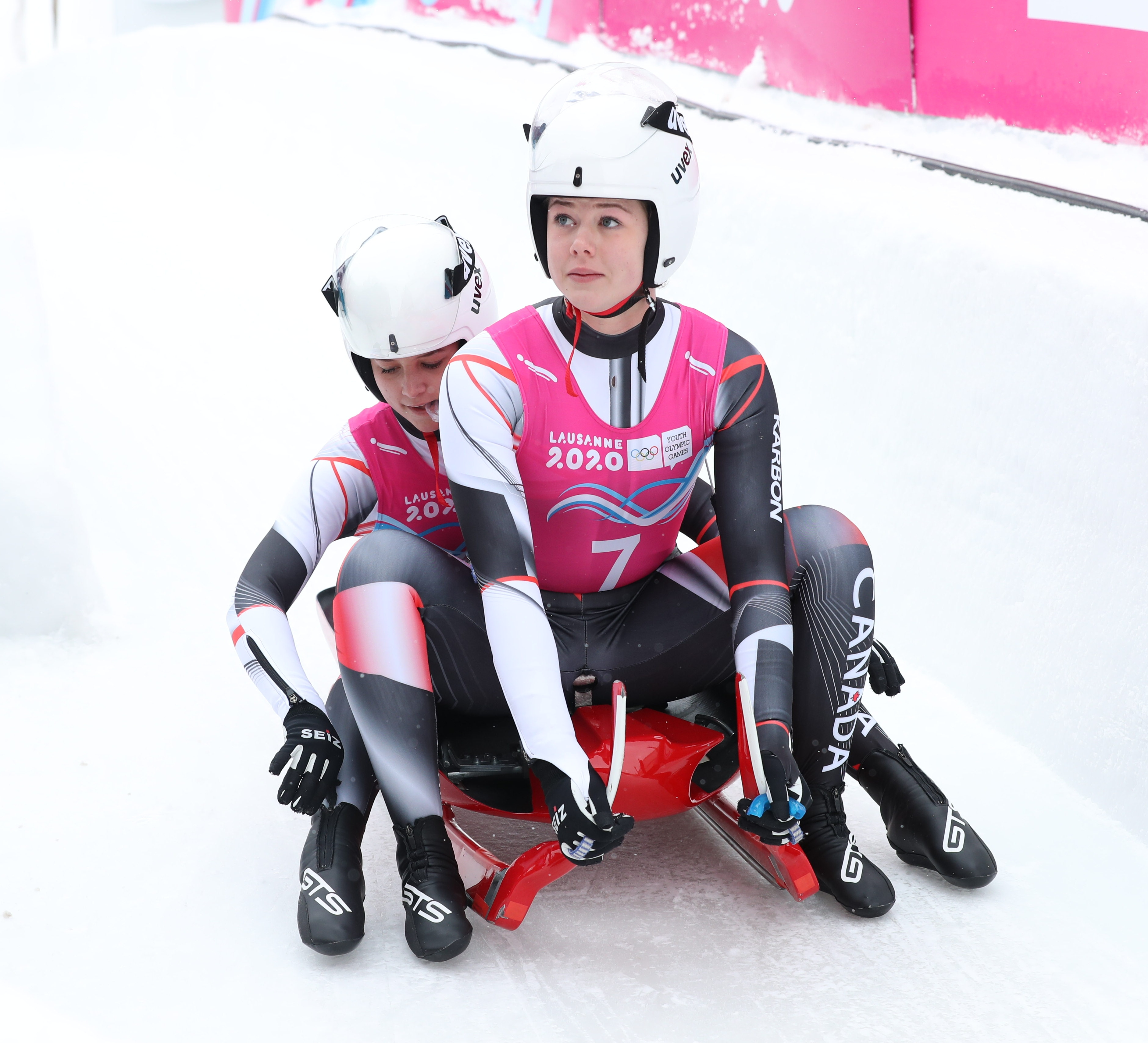 2nd run Luge Women's Double at the 2020 Winter Youth Olympics in Lausanne